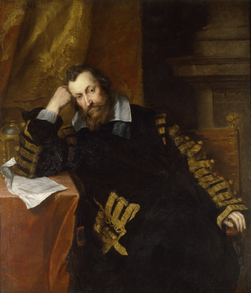 Henry Percy, 9th Earl of Northumberland (the 'wizard earl'), painted posthumously as a philosopher, at Petworth House. ©NTPL/Derrick E. Witty